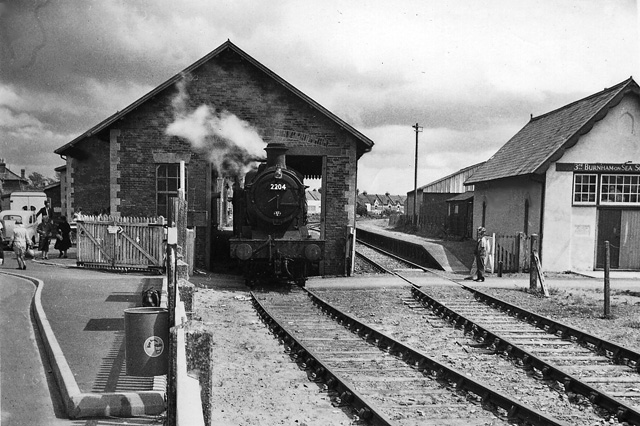 Burnham-on-Sea Station and Loco Shed. View southward, towards Highbridge and Evercreech Junction; ex-Midland & London & South Western (Somerset & Dorset) Joint, terminus of branch from Highbridge and Evercreech Jct. This station was close to regular passenger trains 29/10/51, although saw trains at holiday times aftewards, also goods until complete closure on 20/5/63. Ex-GW 22XX class 0-6-0's, such as 2204 seen here, had worked on the line only recently.